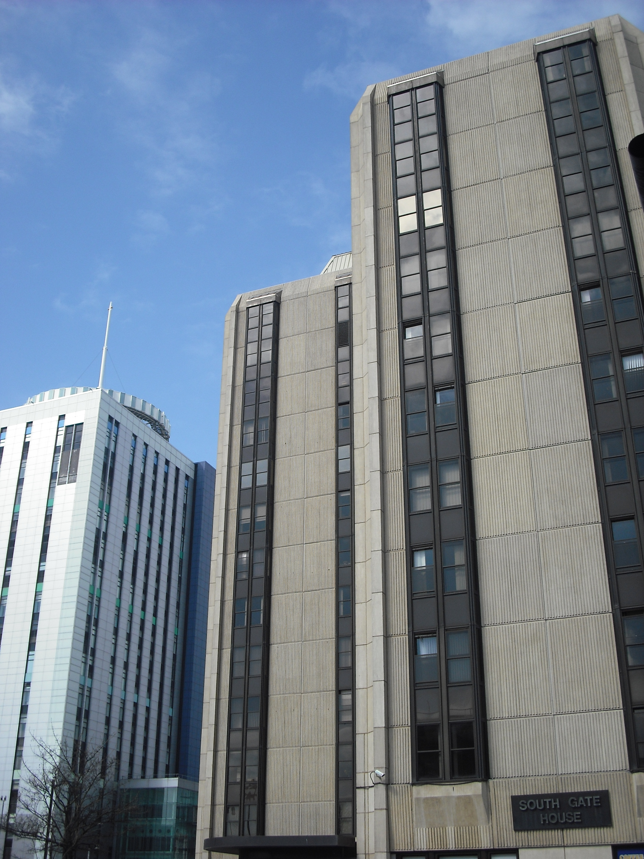 Skyscrapers in the city centre of Cardiff.